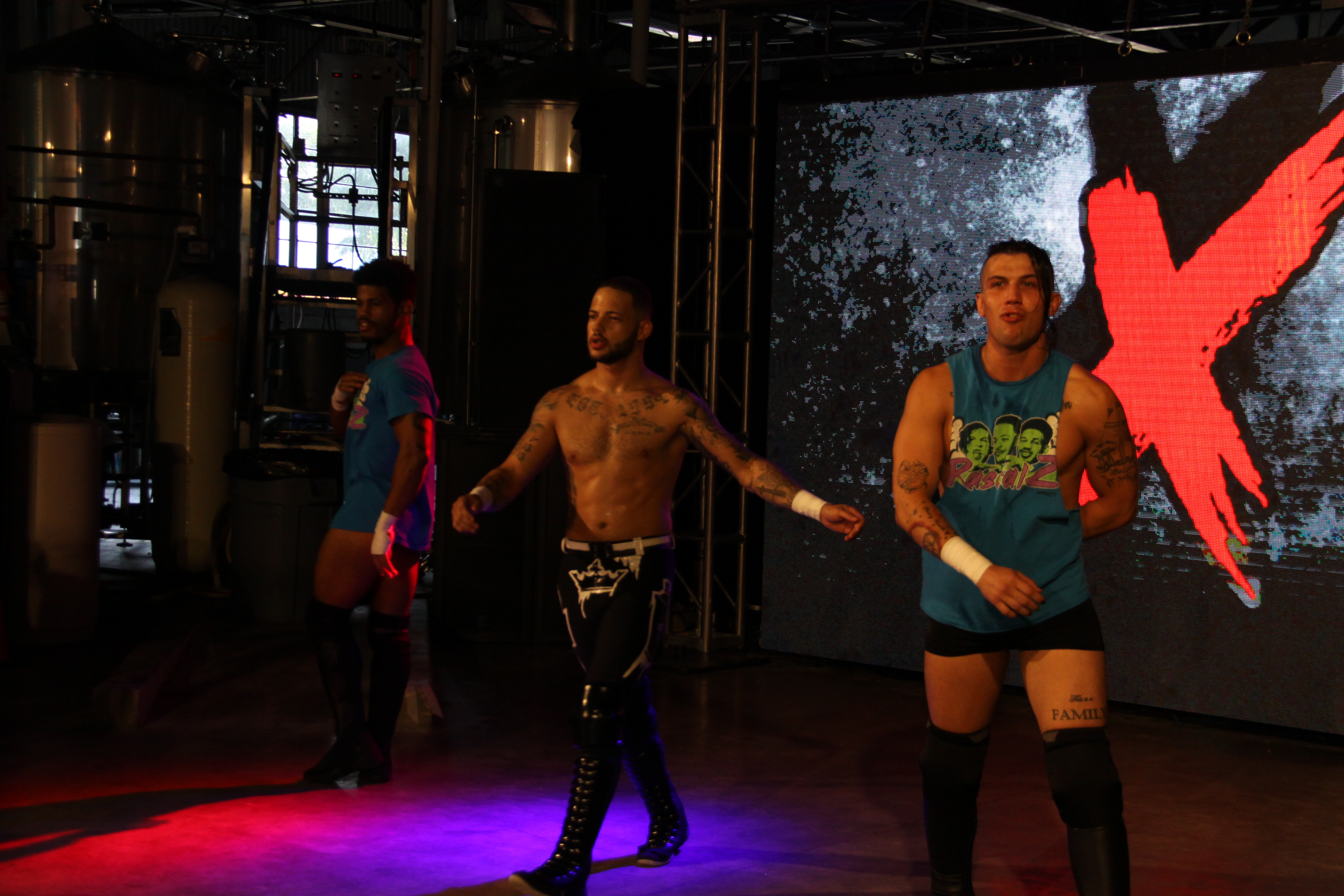 pro wrestling stable, The Rascalz